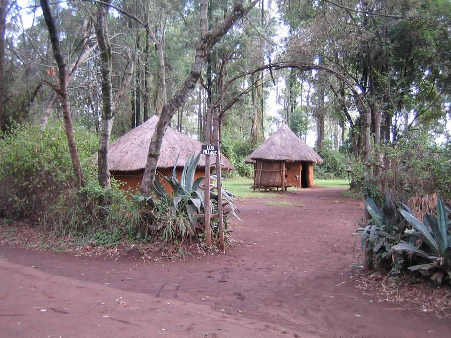 The Luo village section at the Bomas of Kenya museum, Nairobi, Kenya